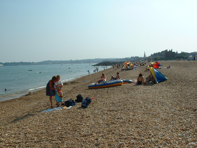 Beach nr Weymouth. North East of Weymouth and looking SW towards the town.